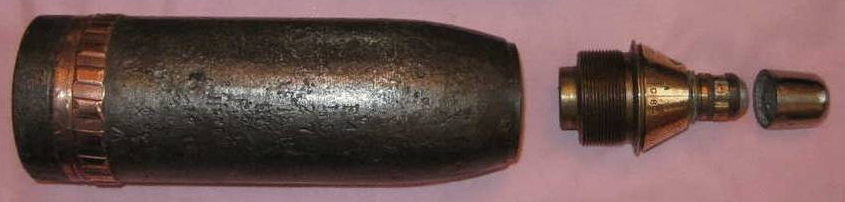 Photograph showing unassembled shell, No. 106 Mk II instantaneous percussion fuze made in August 1917 and fuze safety cap, for British QF 18-pounder field gun. Note 1 : The shell has been fired, indicated by grooves in driving band around base of shell. Note 2 : This HE shell would originally have been painted yellow. For assembled complete round see File:18-pounder HE round with No 106 fuze.jpg